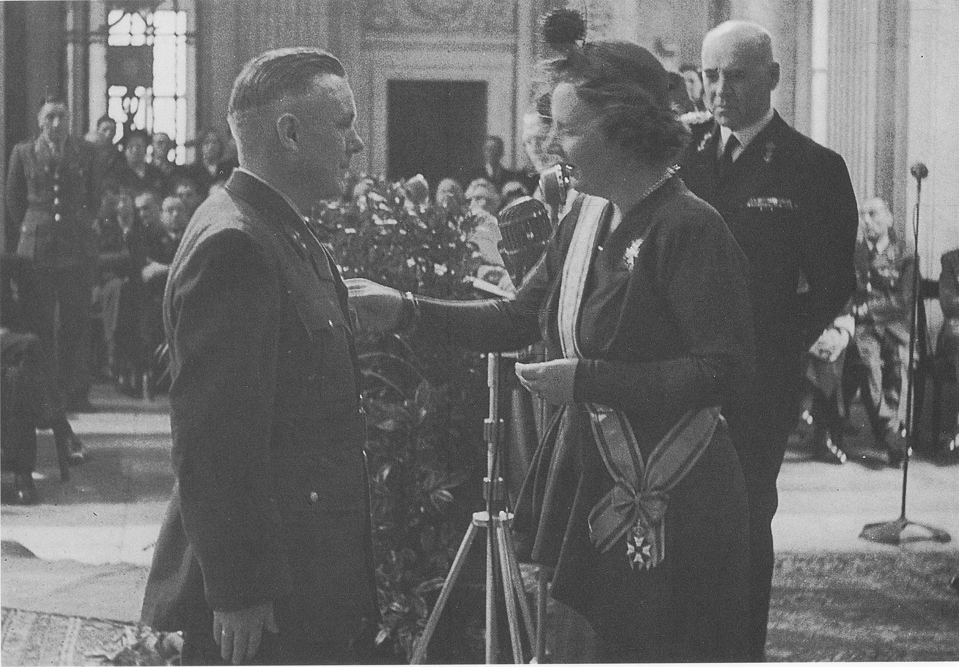 The Airman's Cross (Dutch: Vliegerkruis) pinned on by H.M. Queen Juliana to Captain J.H. Lukkien on 3 June 1950